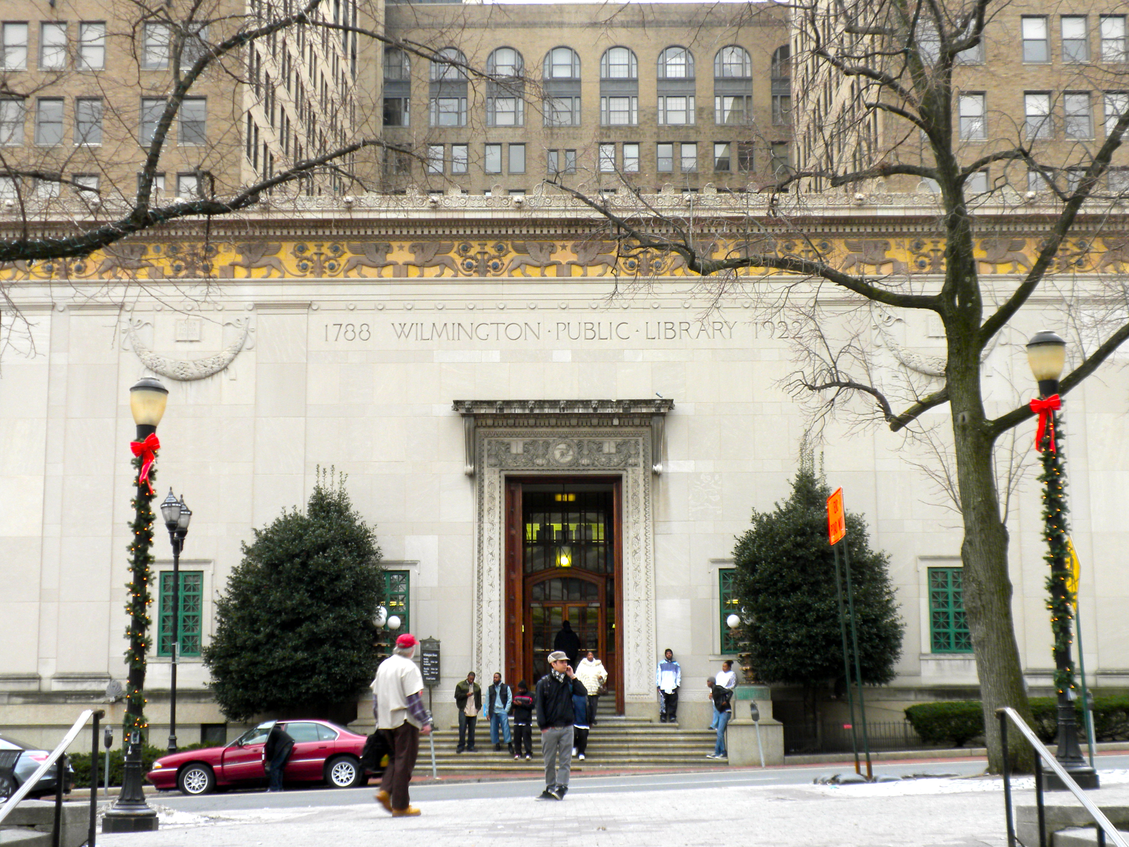 Wilmington Public Library on Rodney Square (Market Street)